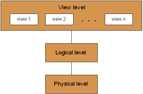 Diagram created by Doug Bell. Released into the public domain.